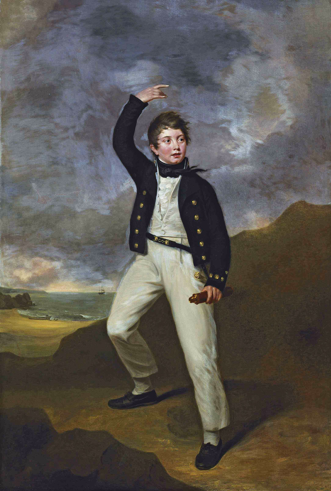 George James Perceval, later 6th Earl of Egmont (1794-1874) oil on canvas 213.5 x 144.75